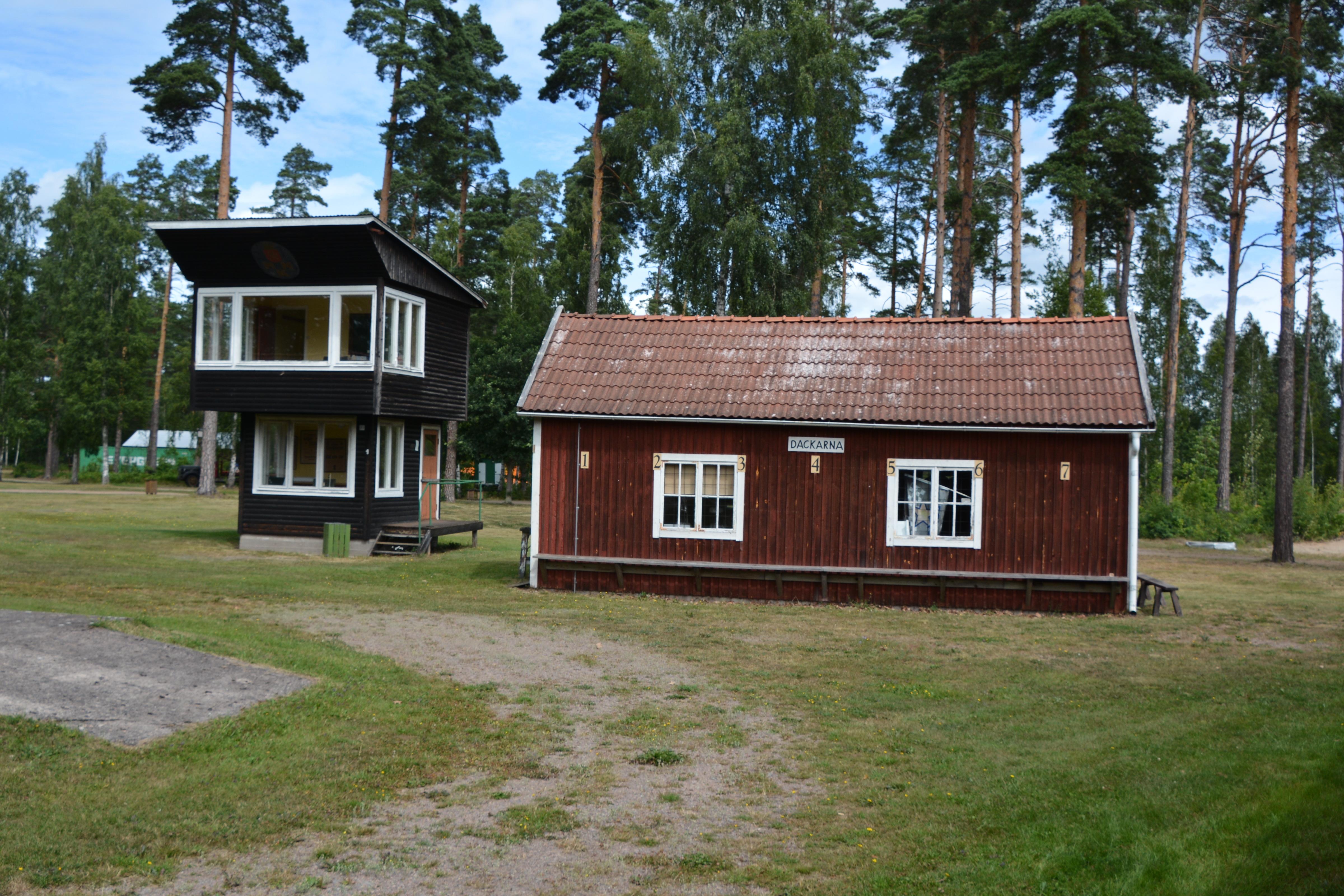 Speakertorn och Dackarnas omklädningsstuga från tidigare speedwaystadion i Målilla, nu i Målilla-Gårdveda hembygdspark